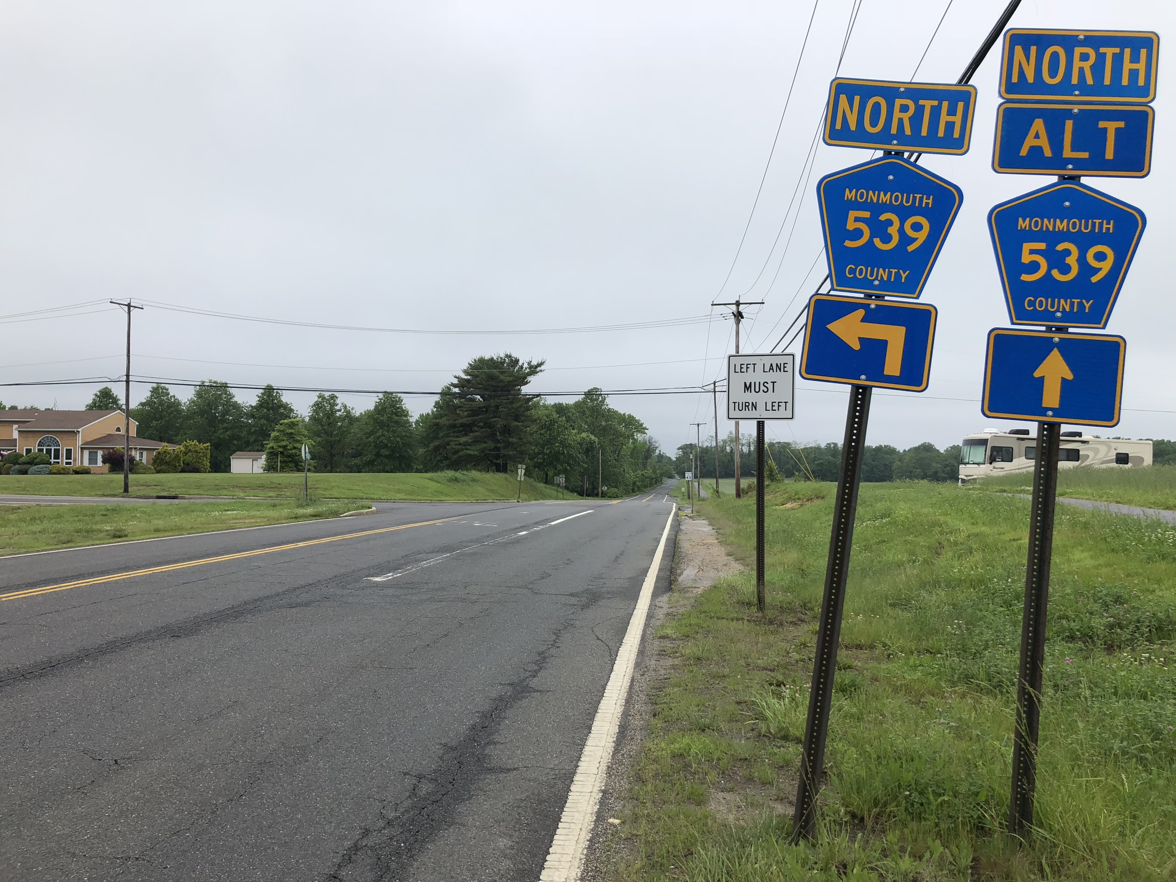 View north along Monmouth County Route 539 (Sharon Station Road) at Monmouth County Route 539 Alternate and Allentown-Davis Station Road in Upper Freehold Township, Monmouth County, New Jersey